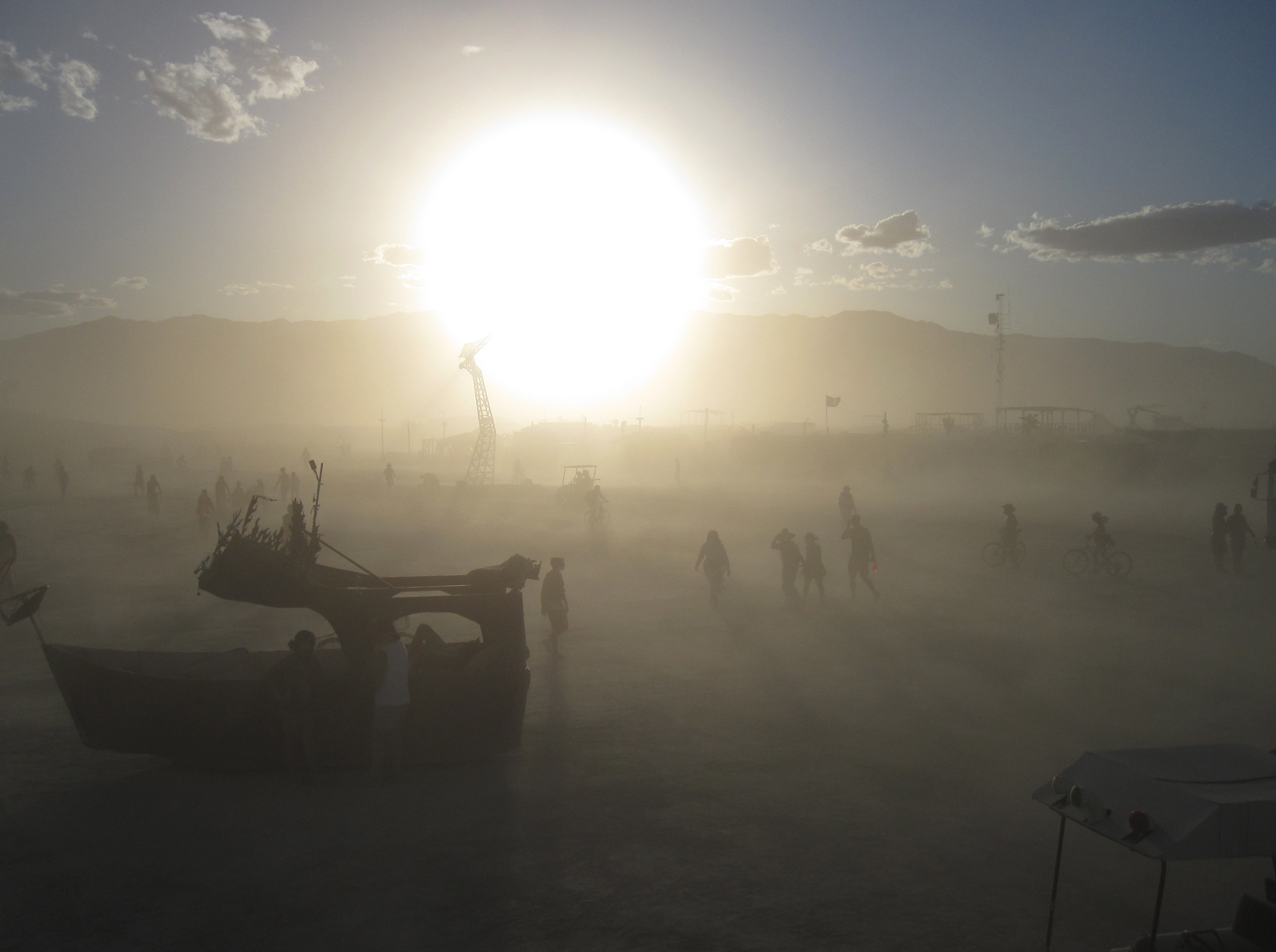 Dust Storm in Black Rock Desert, Nevada (USA).